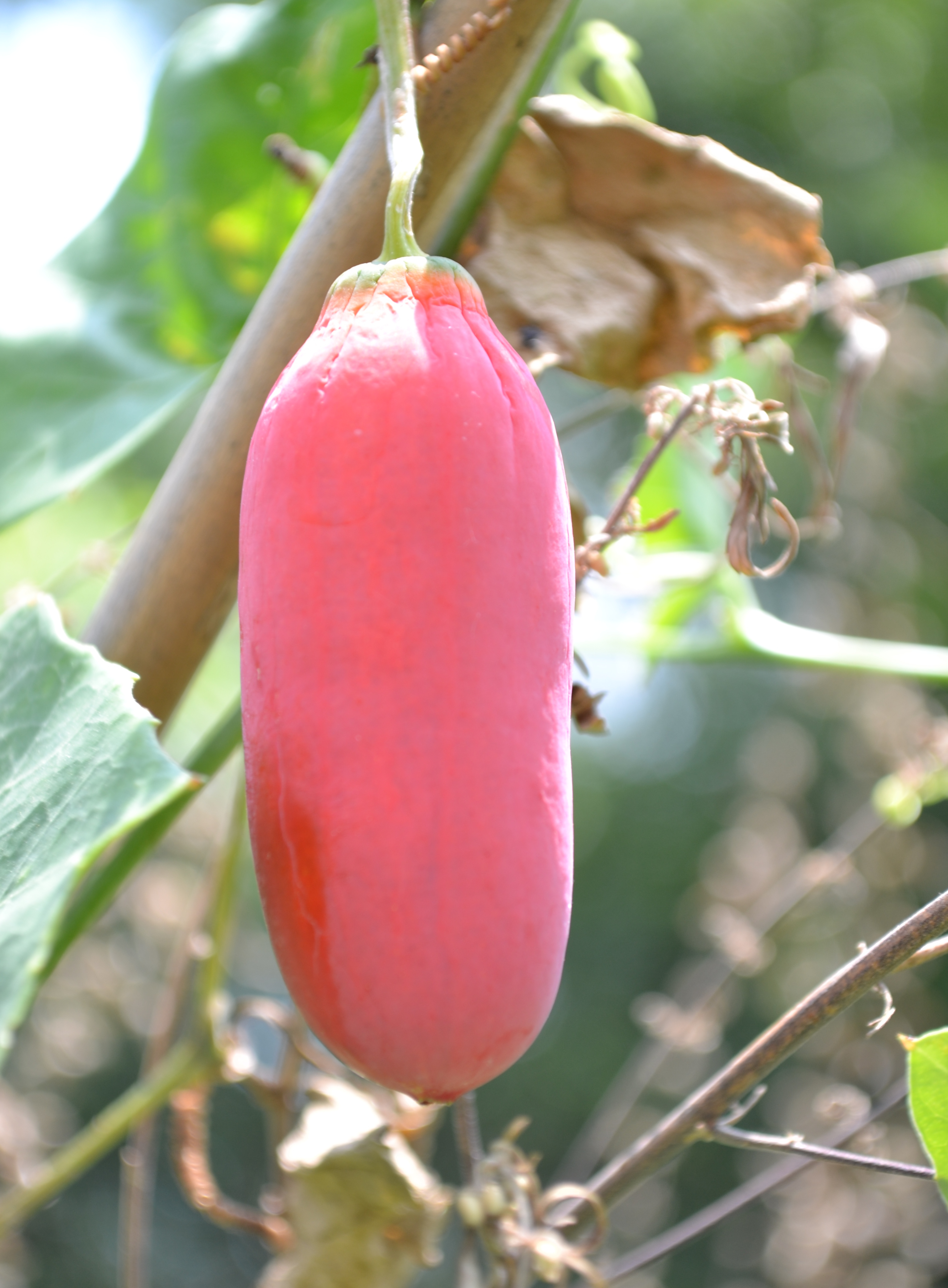 Coccinia grandis, the ivy gourd, also known as baby watermelon, little gourd, gentleman's toes, tindora or gherkin (inaccurately) is a tropical vine